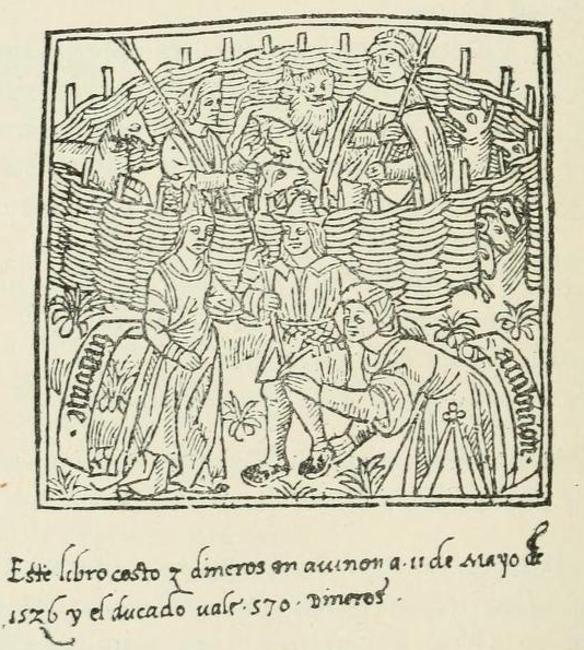 Sheepfold with lion. Pierre Gringore, La piteuse complainte, 1535, f 8v, with handwritten note by Fernando Colón. Copy at Biblioteca Colombina